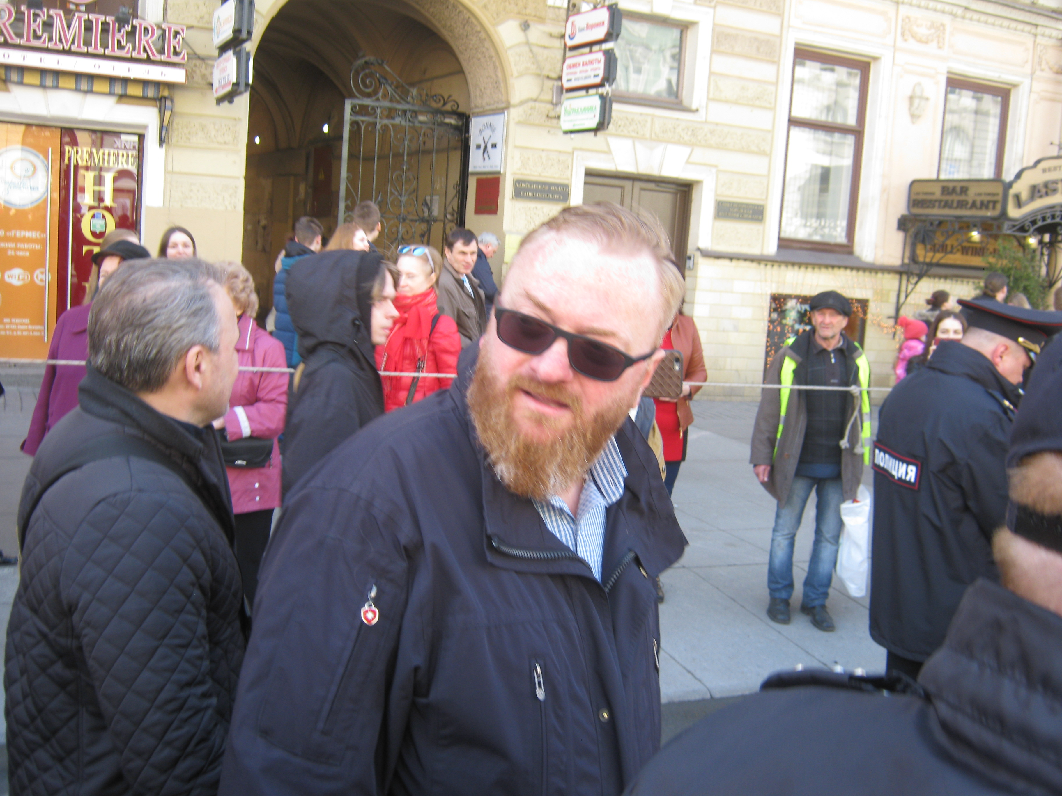 1st of May 2017 in Saint Petersburg